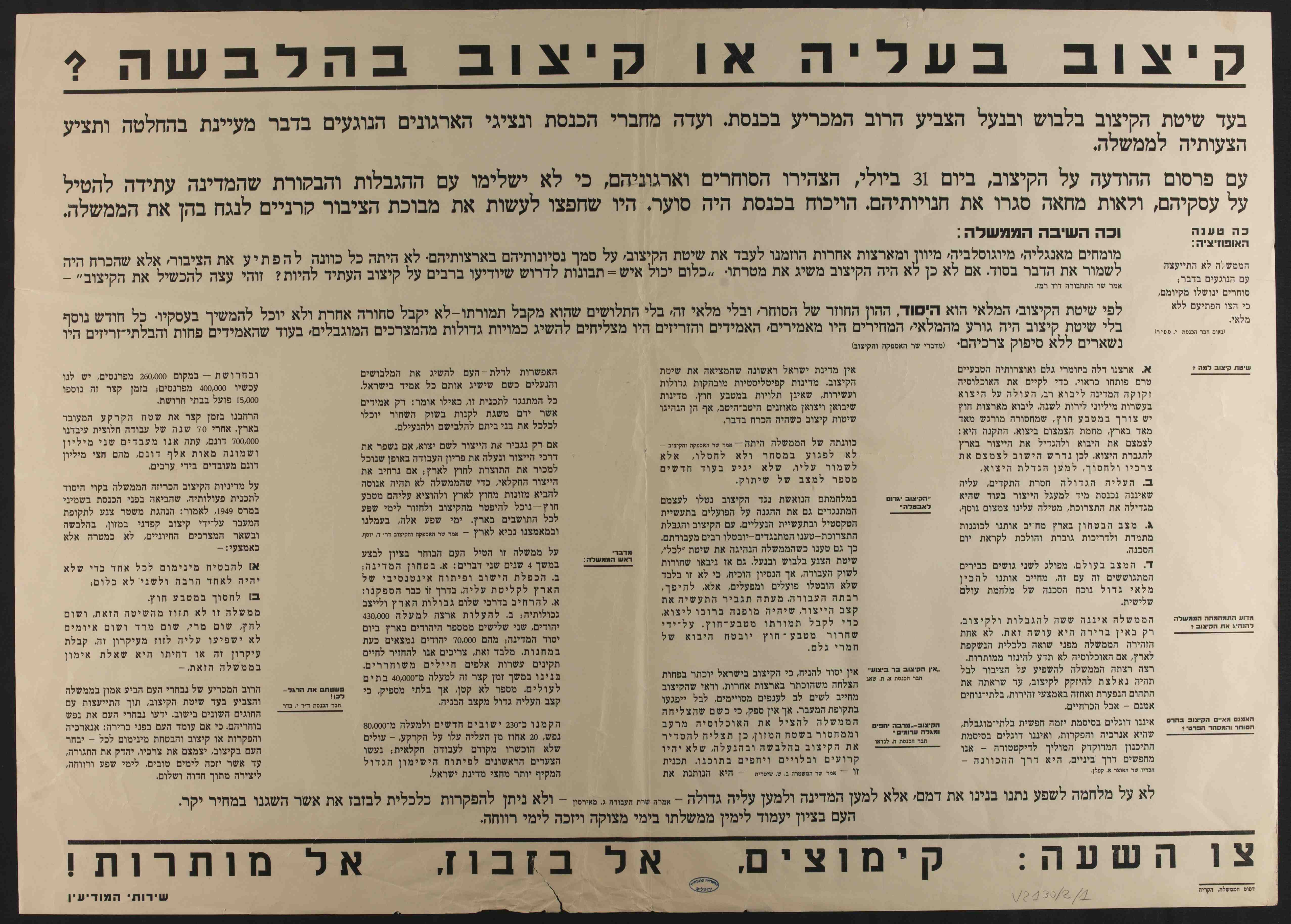 Tzena austerity explanation